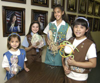 Taken from [1]. It is a picture of Girl Scouts learning at NASA